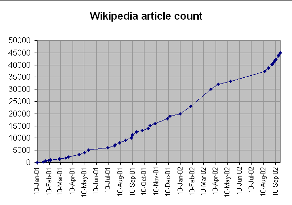 Latest graph of growth of Wikipedia as of sep 21 2002